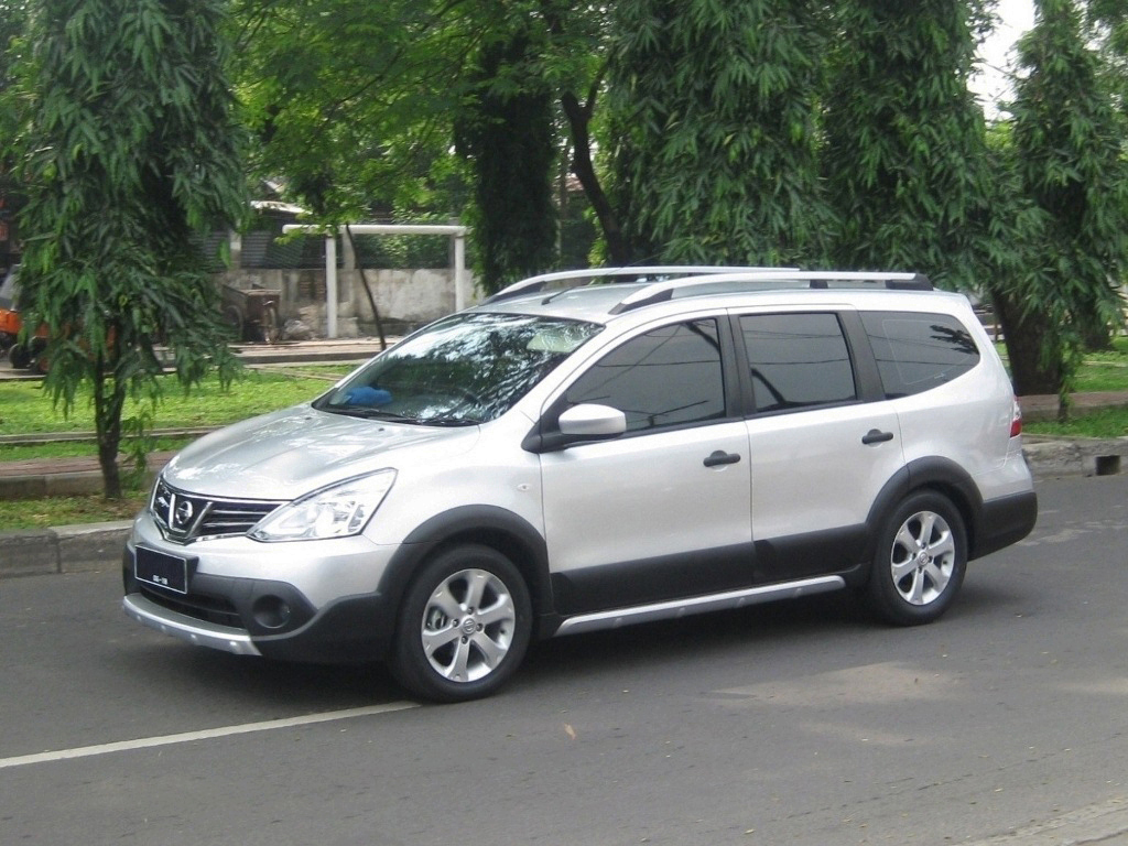 2013 Nissan Grand Livina 1.5 X-Gear (L11).